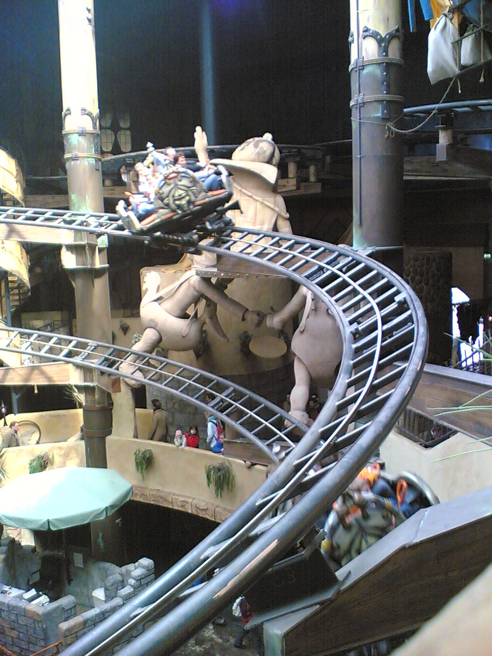 Helix of the roller coasters Winjas at Phantasialand